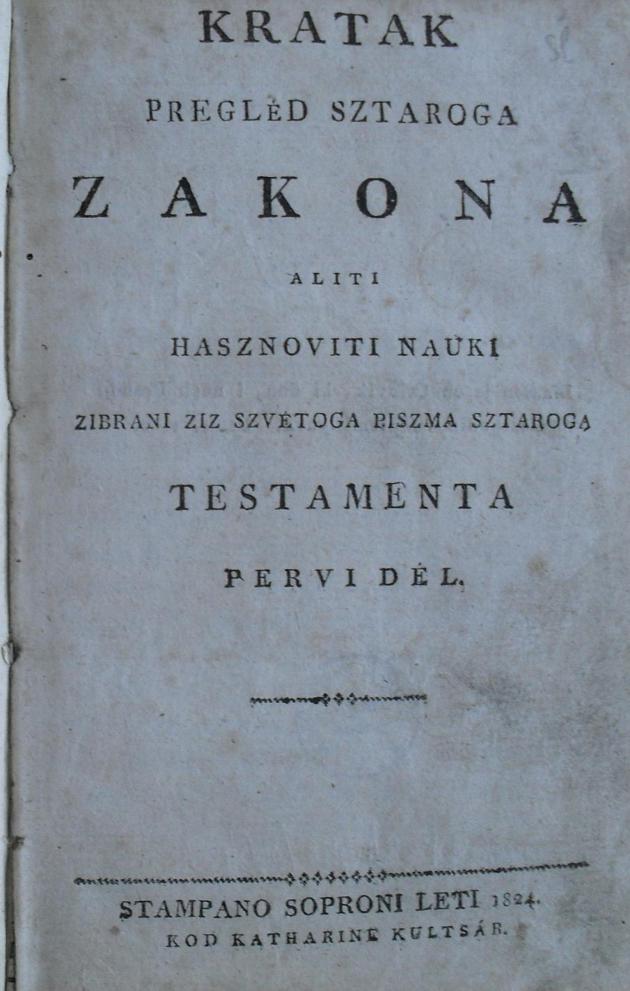 József Ficzkó of Peresznye: Kratak pregléd sztároga zákona (Small tenet of the Old Testament) in Burgenland Croatian language from 1824. Following book: Kratak pregléd novoga zákona